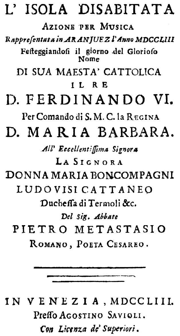 Giuseppe Bonno - L’isola disabitata - titlepage of the libretto - Venice 1753